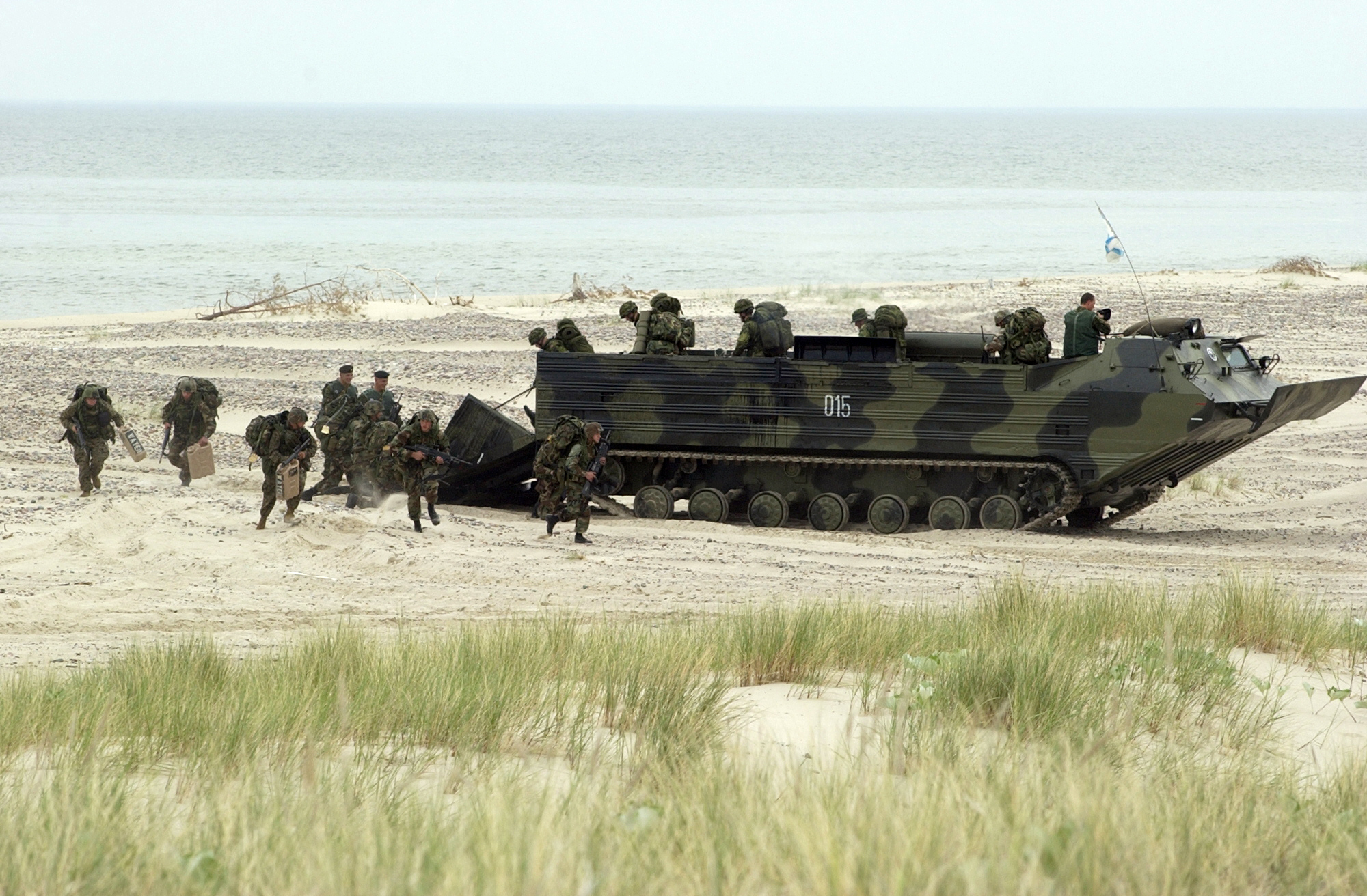 Marines from Denmark, Lithuania, Poland, and United States disembark from an PTS-2 amphibious landing craft during an exercise at Ustka, Poland as part of Baltops 2003. The United States and 11 other nations are participating in this year's exercise. BALTOPS 2003 is intended to improve interoperability between allies and Partnership for Peace countries by conducting a peace support operation at sea including exercises in gunnery, replenishment-at-sea, undersea warfare, radar tracking, mine countermeasures, seamanship, search and rescue, maritime interdiction operations, and scenarios dealing with potentially real world crises.